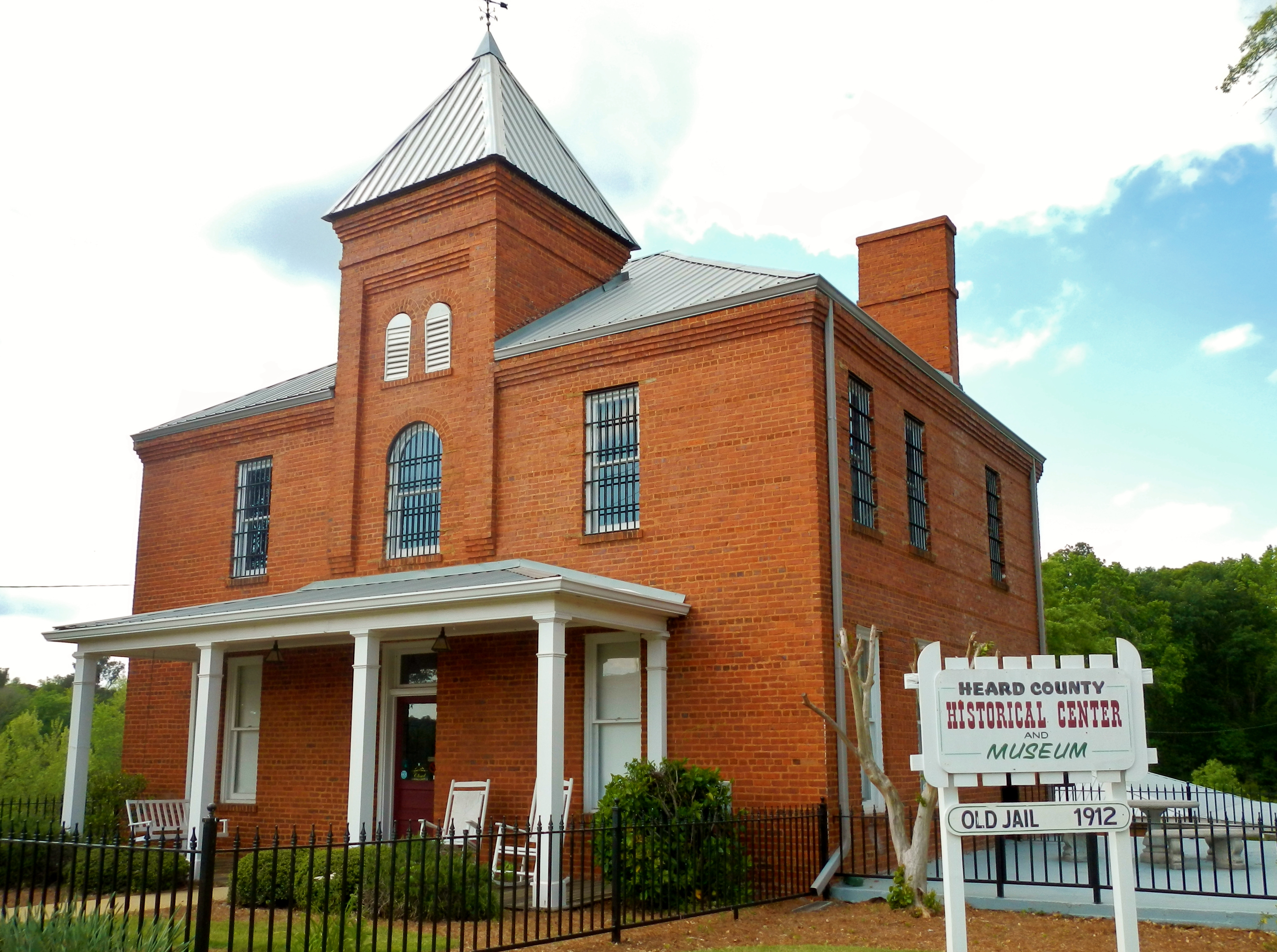 This is a photograph of the Heard County Jail in Franklin, GA. It was built in 1912 and placed on the NRHP on January 27, 1981.